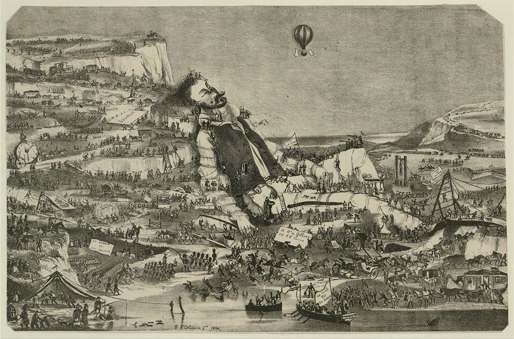 "La patrie est en danger." Lithograph by Ferdinand-Philippe d'Orléans (1810-1842). Library of Congress description: "French political cartoon uses a scene from Jonathan Swift's Gulliver's Travels to compare the situation surrounding the 1830 July Revolution in France to the time when l'Assemblée (the French revolutionary government) issued a proclamation on 11 July 1792 in a response to a war threat. Print shows Lilliputians fastening Gulliver to the ground and rushing around in other activities. Hovering above the scene is a hot air balloon." Ferdinand-Philippe d'Orléans was both a patron of the arts and an amateur engraver.